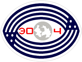 Patch for the Mir EO-4 expedition to the Mir space station in 1988/89.